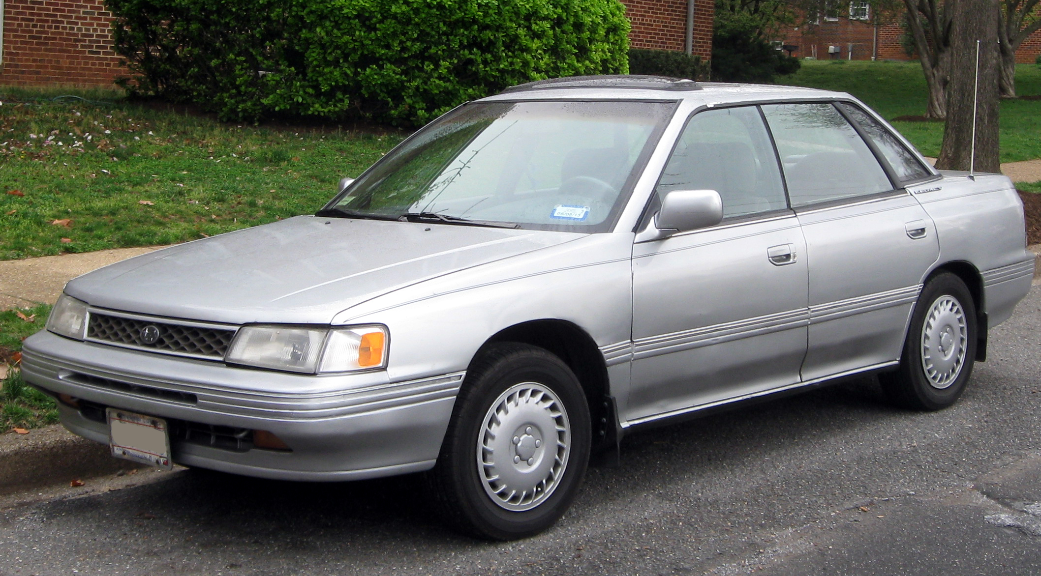 1990-1991 Subaru Legacy photographed in Washington, D.C., USA.